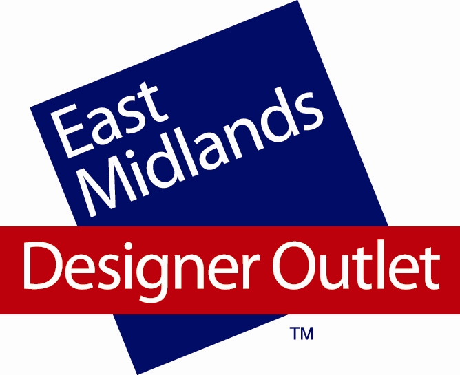 Logo for East Midlands Designer Outlet